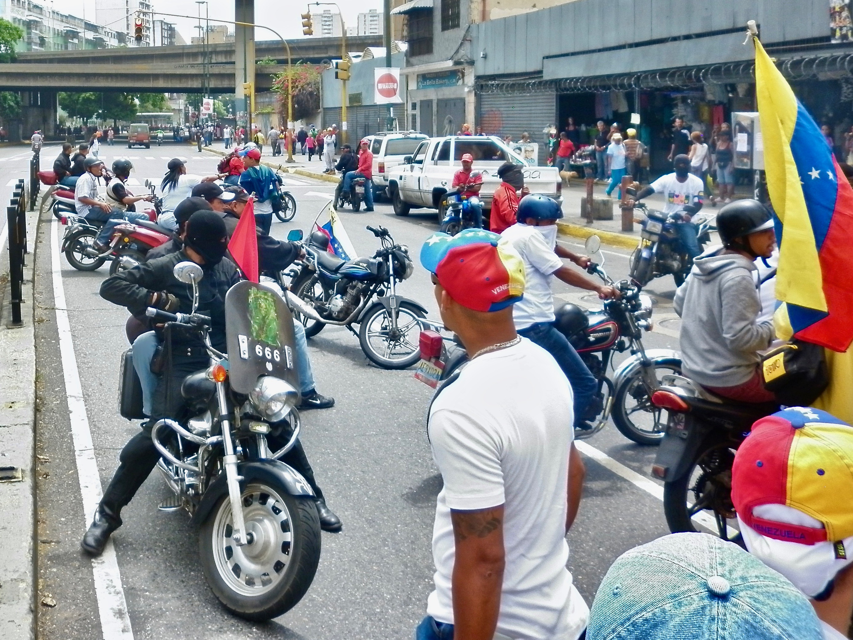 Pro-government colectivos in San Martín, Caracas (Venezuela), block the passage of protests during the Mother of All Marches.